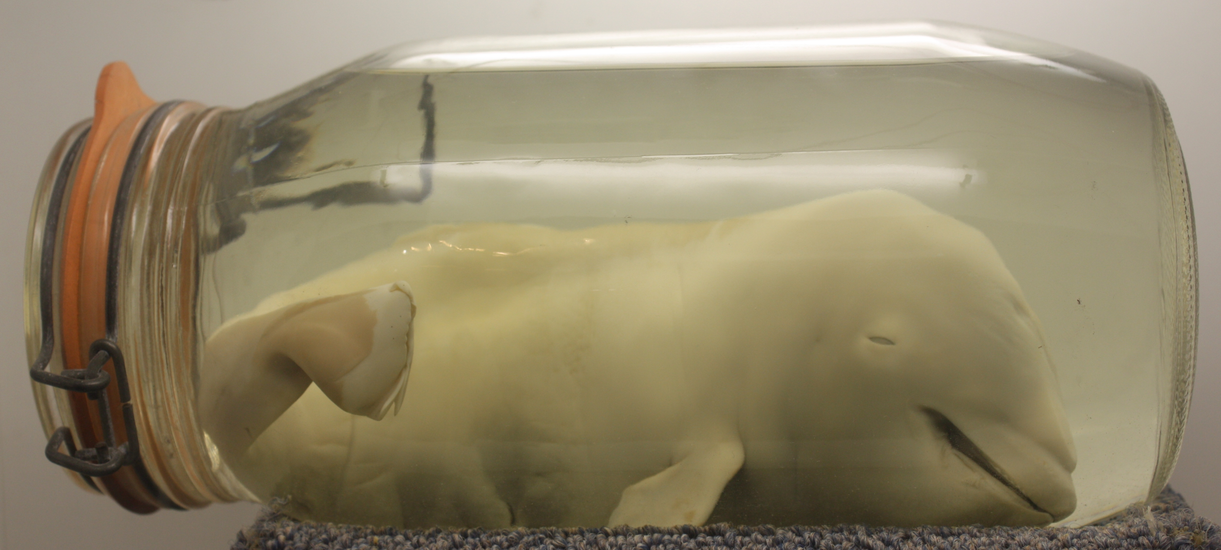 This is "Biskit", a three months Common Bottlenose Dolphin (Tursiops truncatus) foetus, removed from its deceased mother during post mortem in 1993, and now on display at the Dolphin Discovery Centre in Bunbury, Western Australia